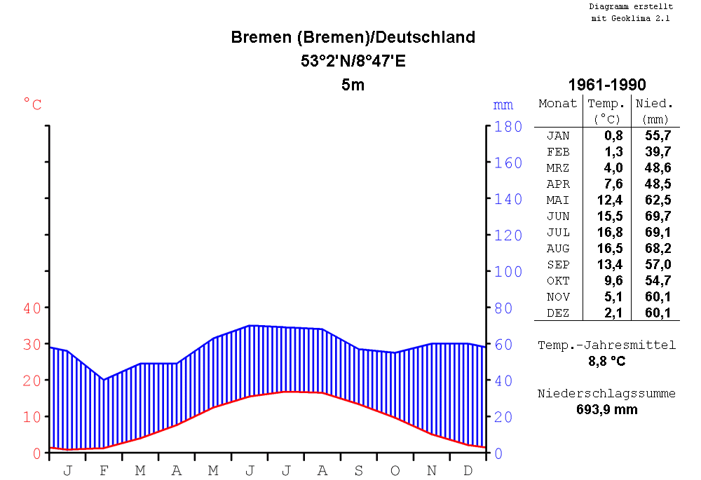 climate chart of Bremen, Bremen, Germany, for the period of time from 1961 to 1990, in the format by Walter and Lieth, metric, °Celsius and millimeters, chart made with Geoklima 2.1, label in German